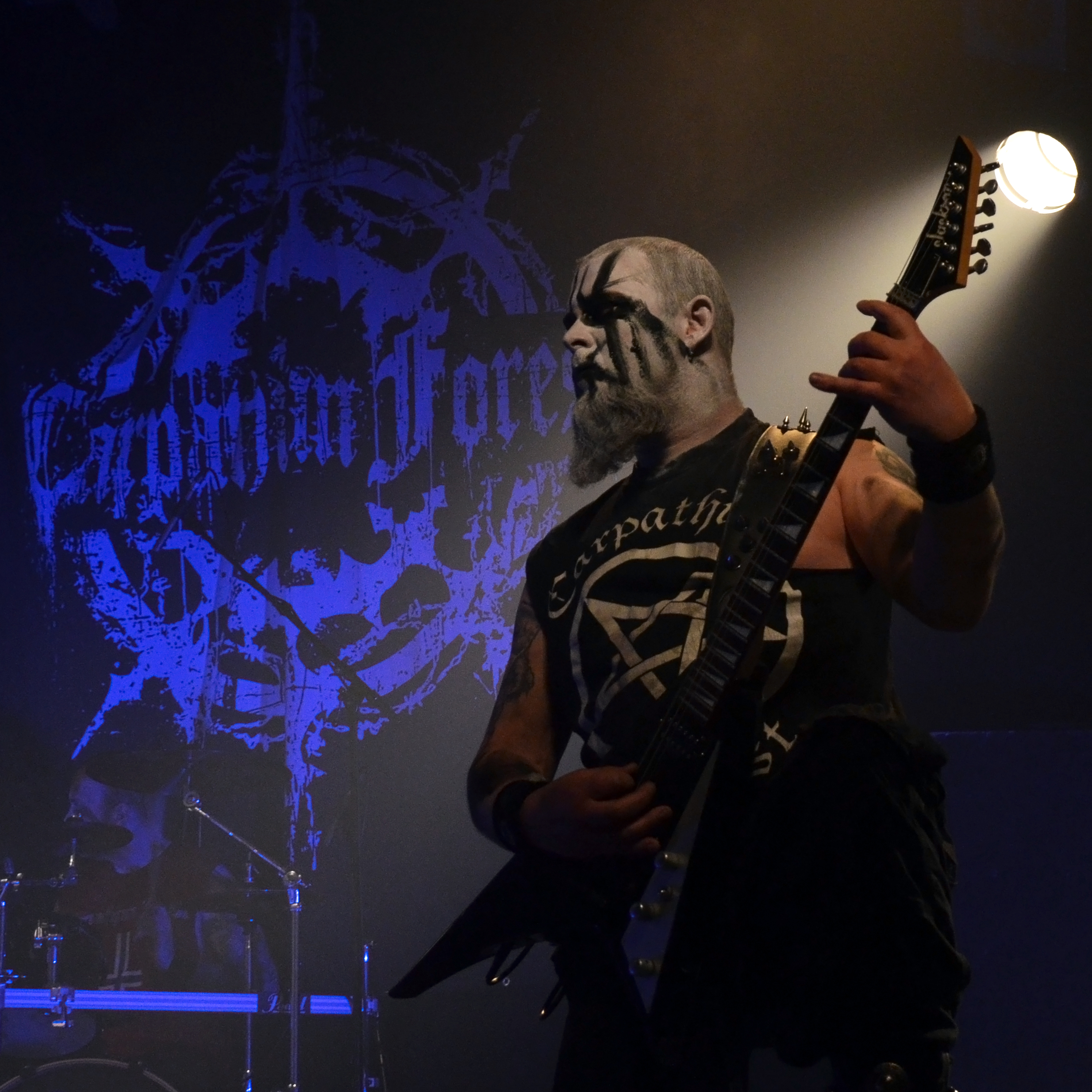 The Norwegian Black Metal band Carpathian Forest performing at the Throne Fest, in Kuurne ( Belgium), on the 11th of May 2013.